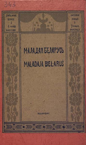 Maładaja Biełaruś. Almanach